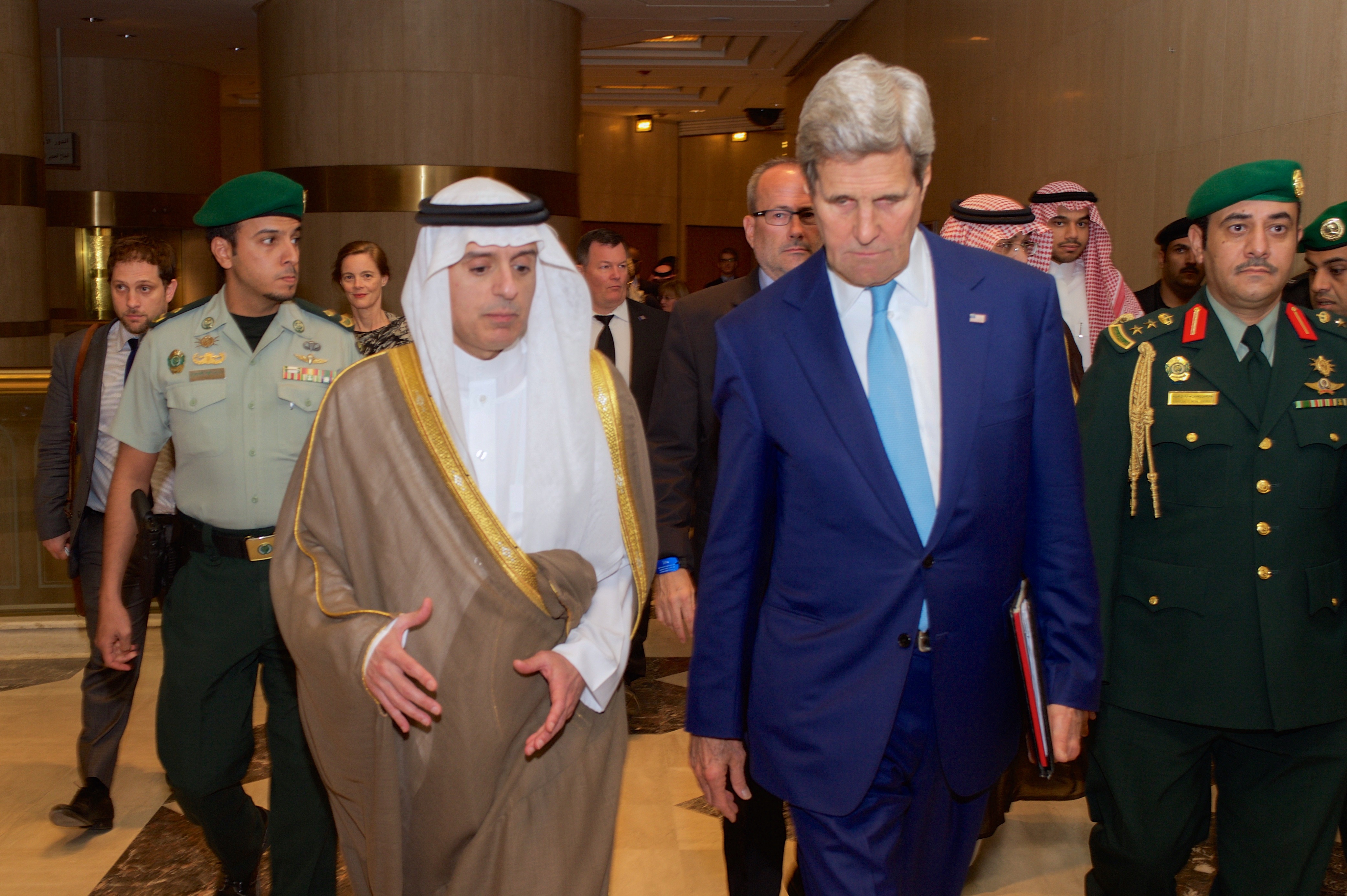 U.S. Secretary of State John Kerry walks with Adel Al-Jubeir, the newly named Saudi Foreign Minister, upon arriving at the Saudi Ministry of Interior in Riyadh, Saudi Arabia, on May 6, 2015, for a meeting and working dinner with Crown Prime Mohammed bin Nayef. [State Department photo/ Public Domain]